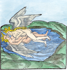 Illustration of "fermentation" in the Rosarium philosophorum (Frankfurt, 1550) [1] [2]